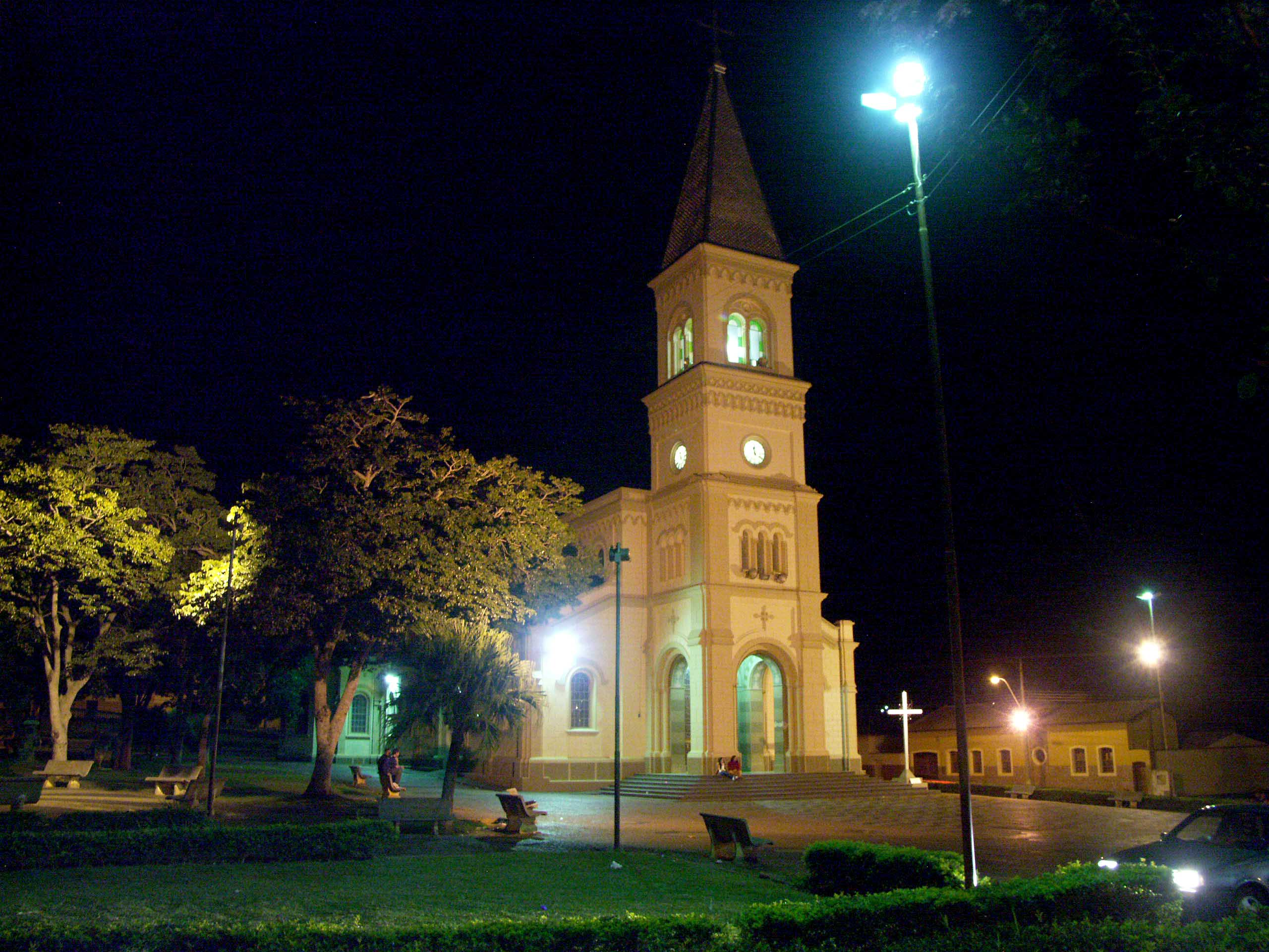 Parrish cotolic church of Monte Santo de Minas, Brazil